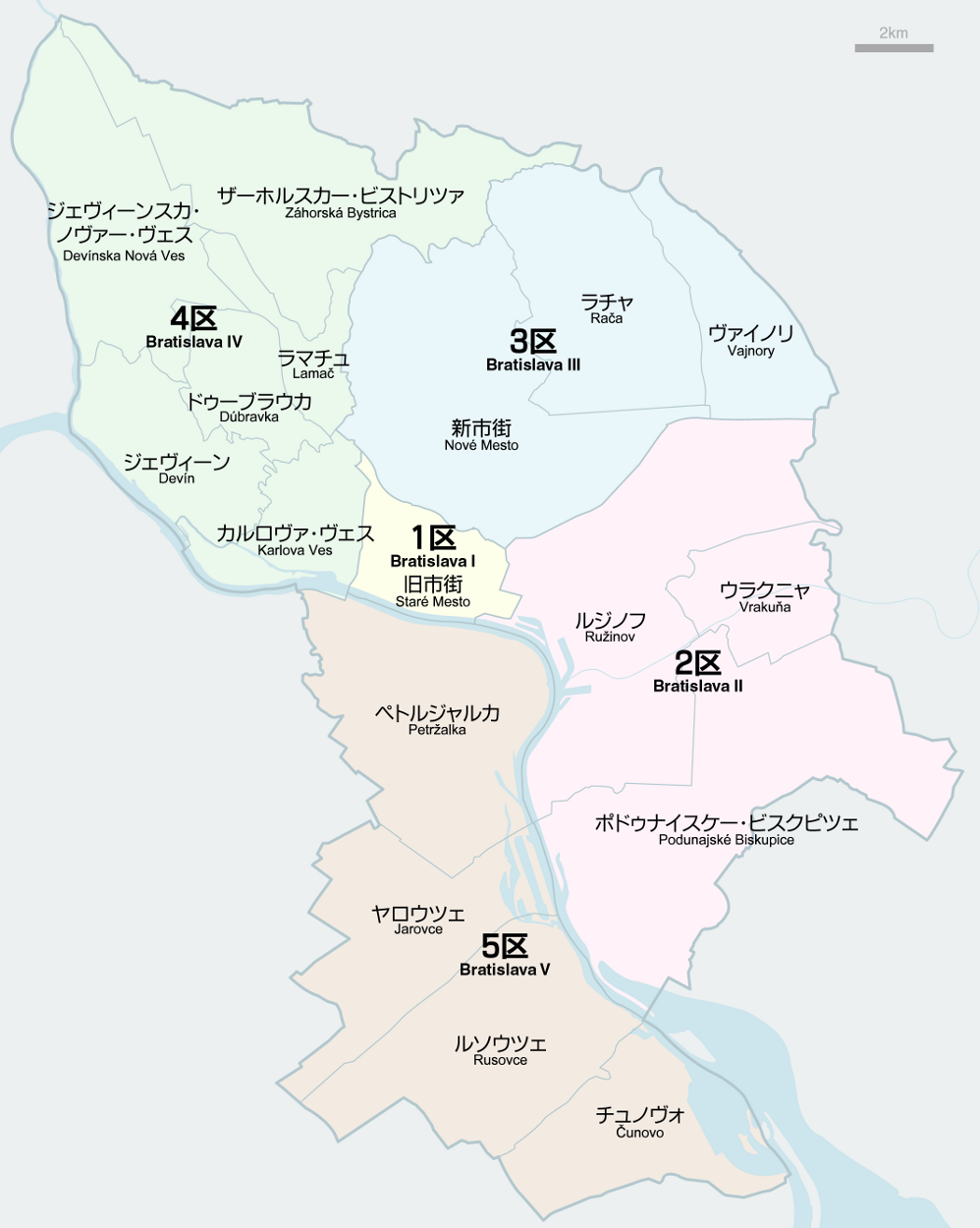 Map of Mestské časti Bratislavy on Japanese.